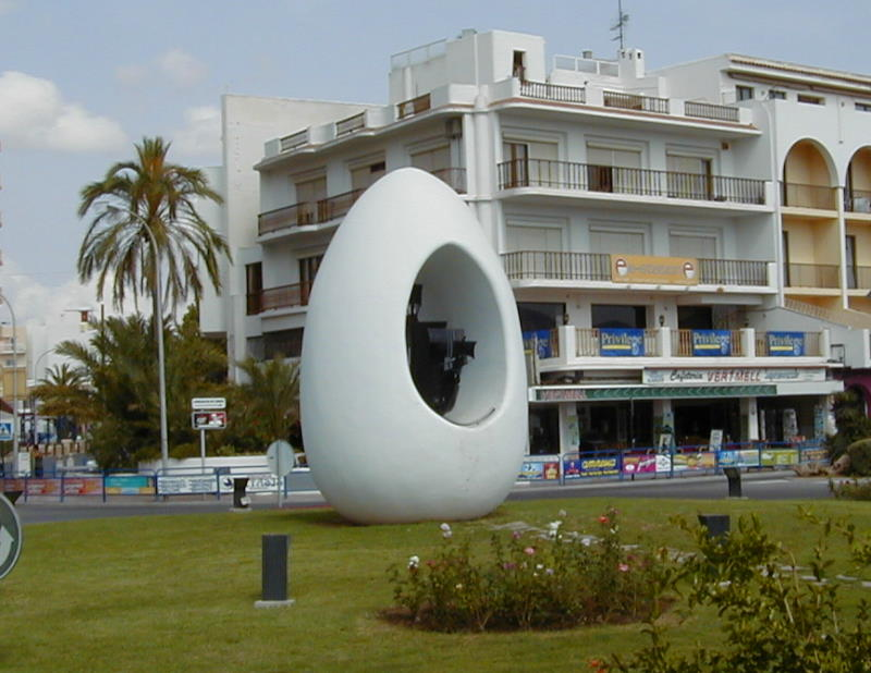 Monument to the discovery of America by Columbus in the shape of an egg in Sant Antoni de Portmany, Ibiza, Spain.